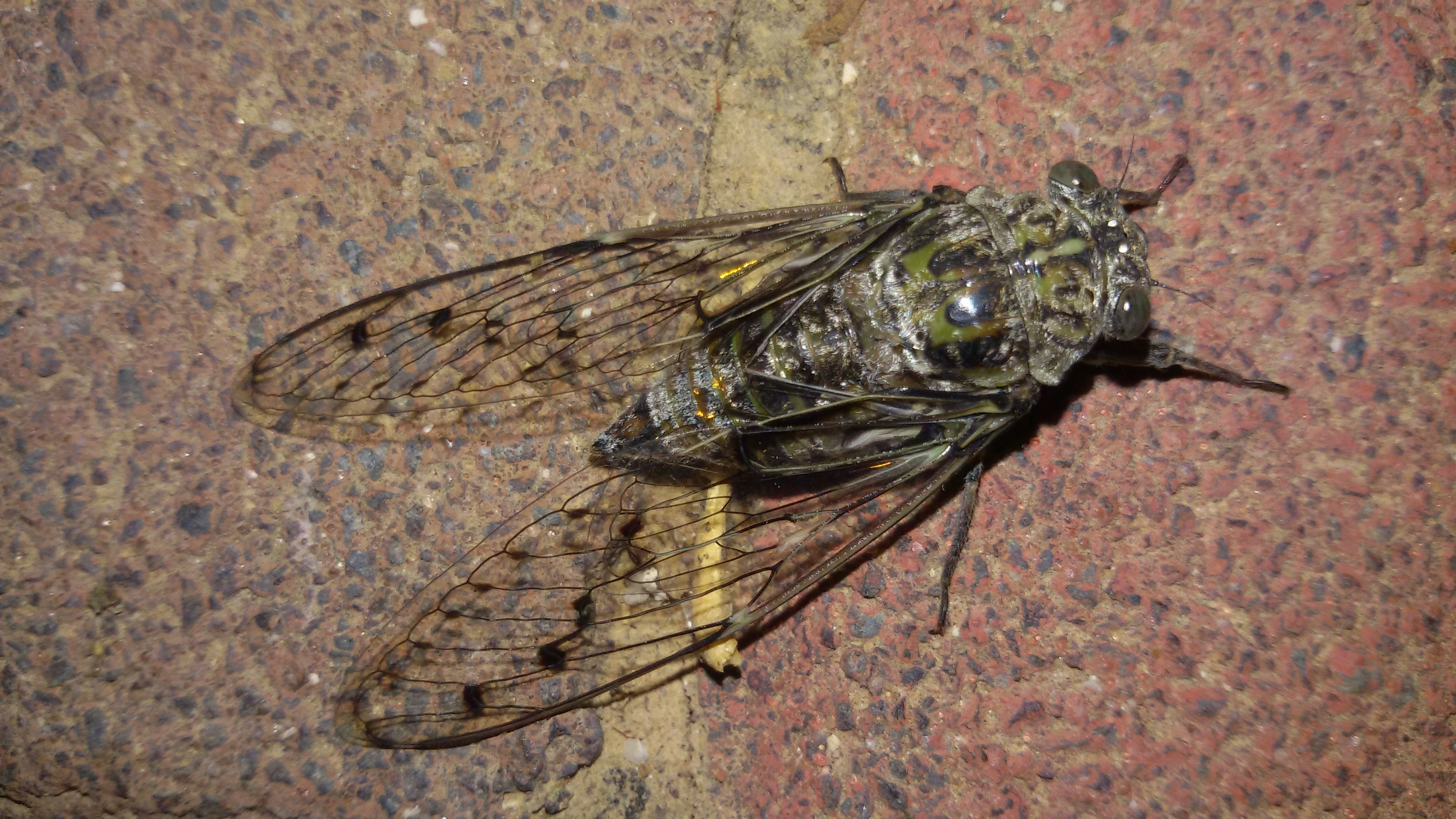 Unidentified cicadidae. About 3 cm length. Dorsal view.